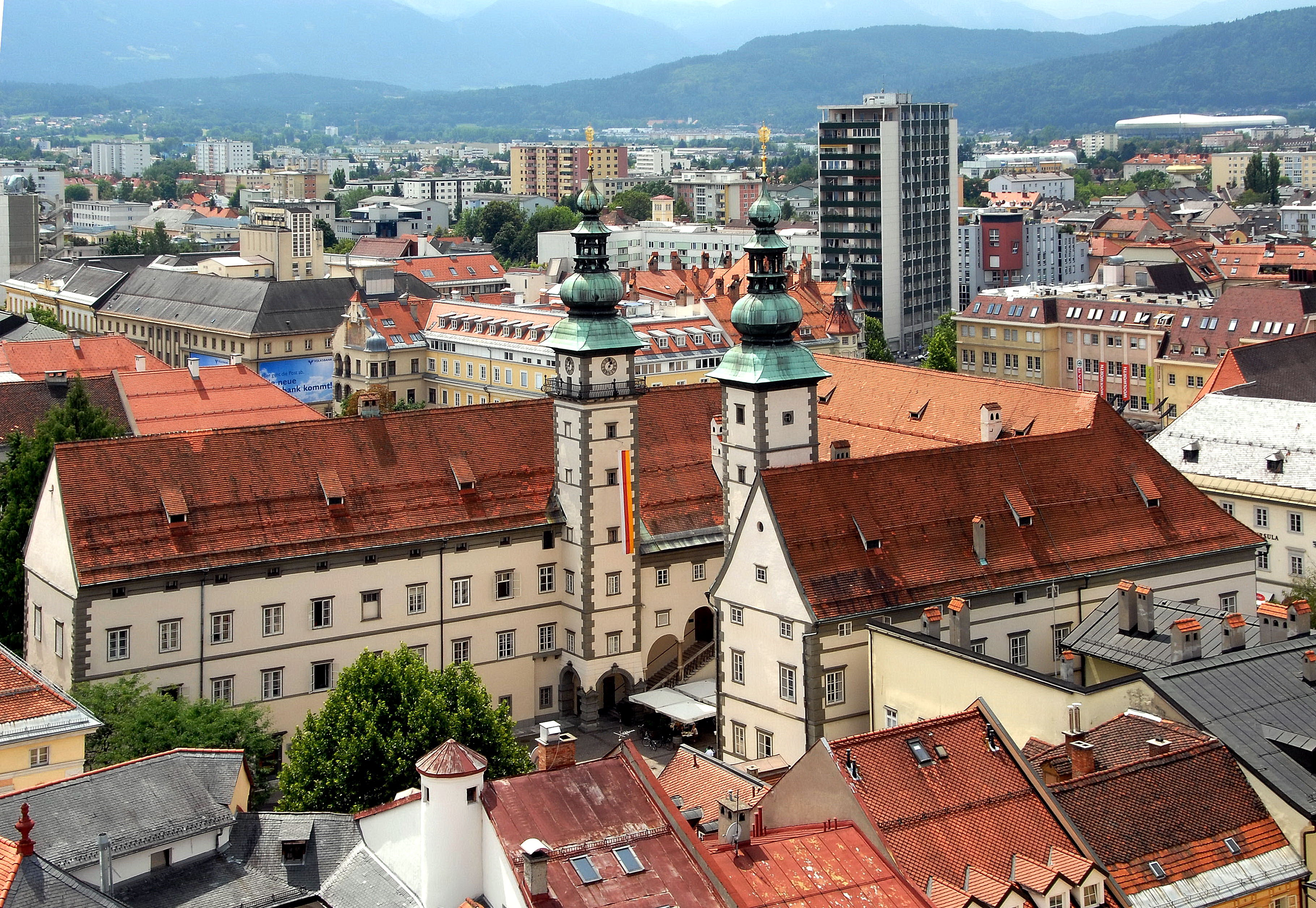 Landhaus, inner city, Klagenfurt, Carinthia, Austria, EU